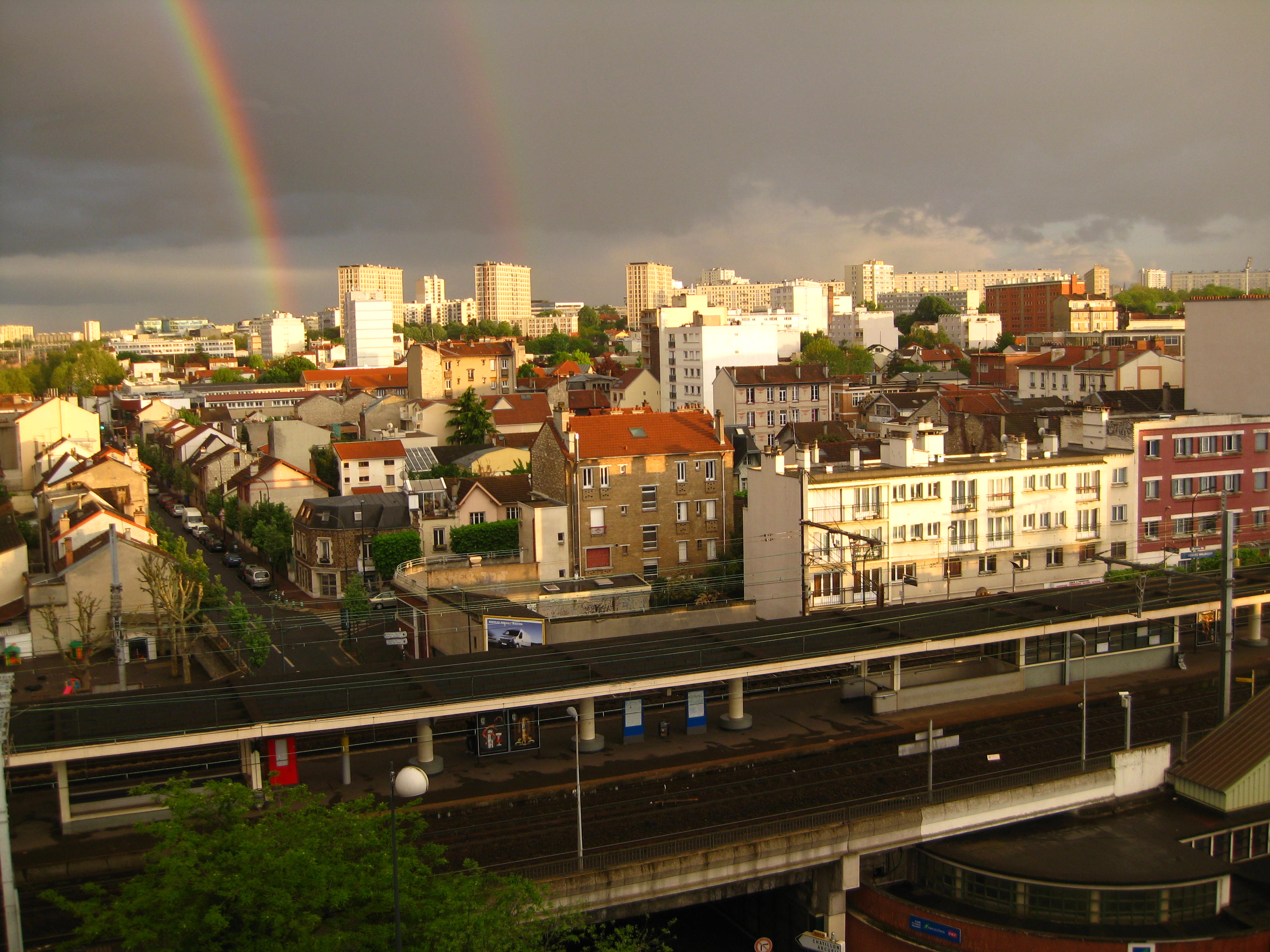 Panorama of Malakoff as seen from Vanves.